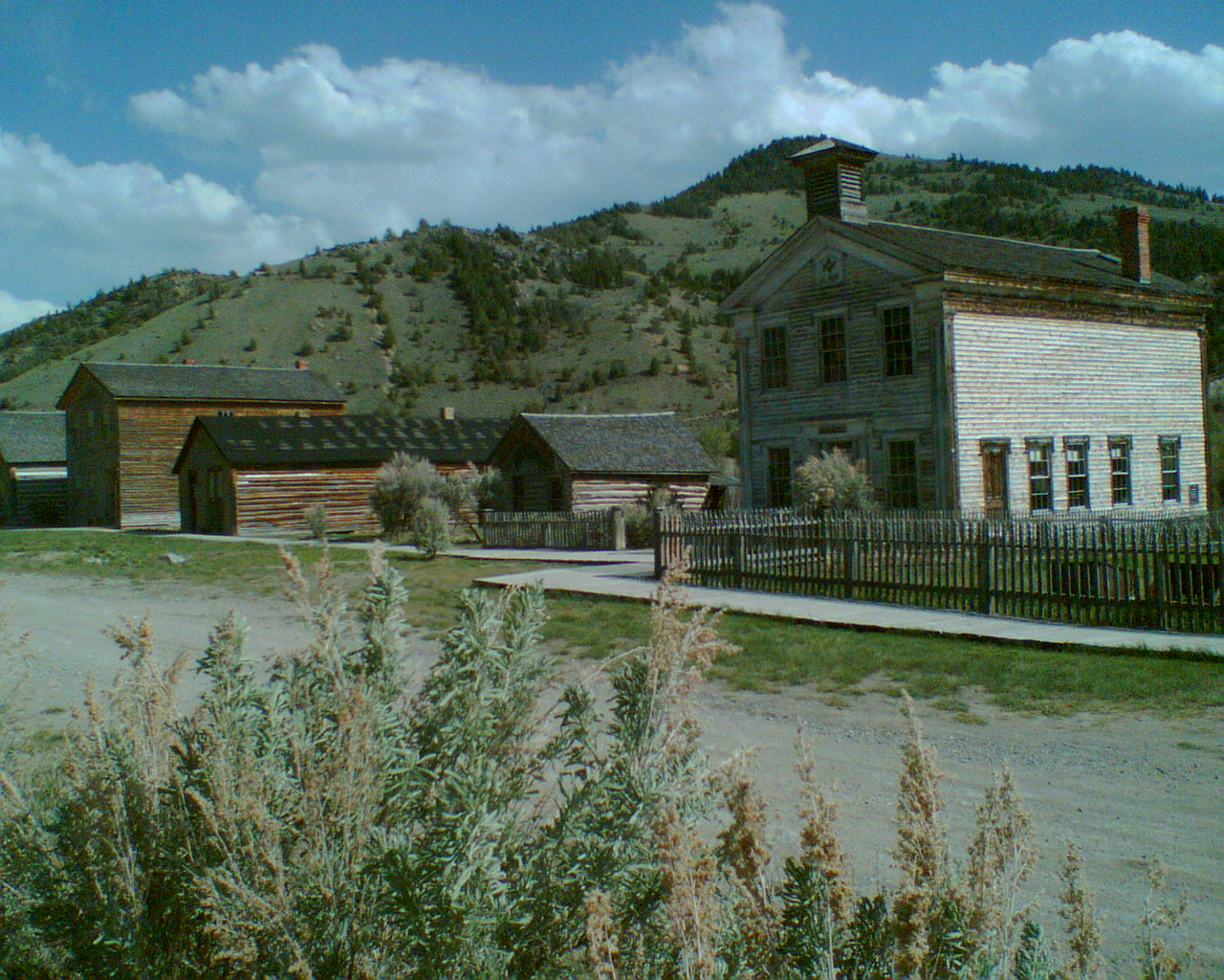 In the ghost town of Bannack, Montana, USA